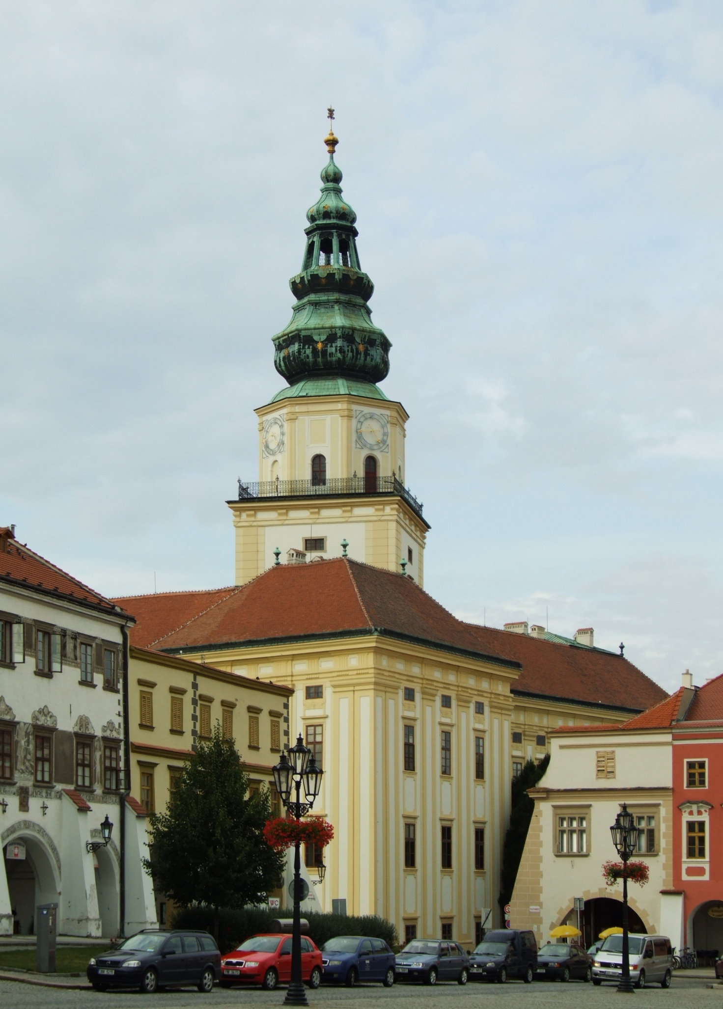 Kroměříž Archbishop's Palace, Moravia, Czech Republic